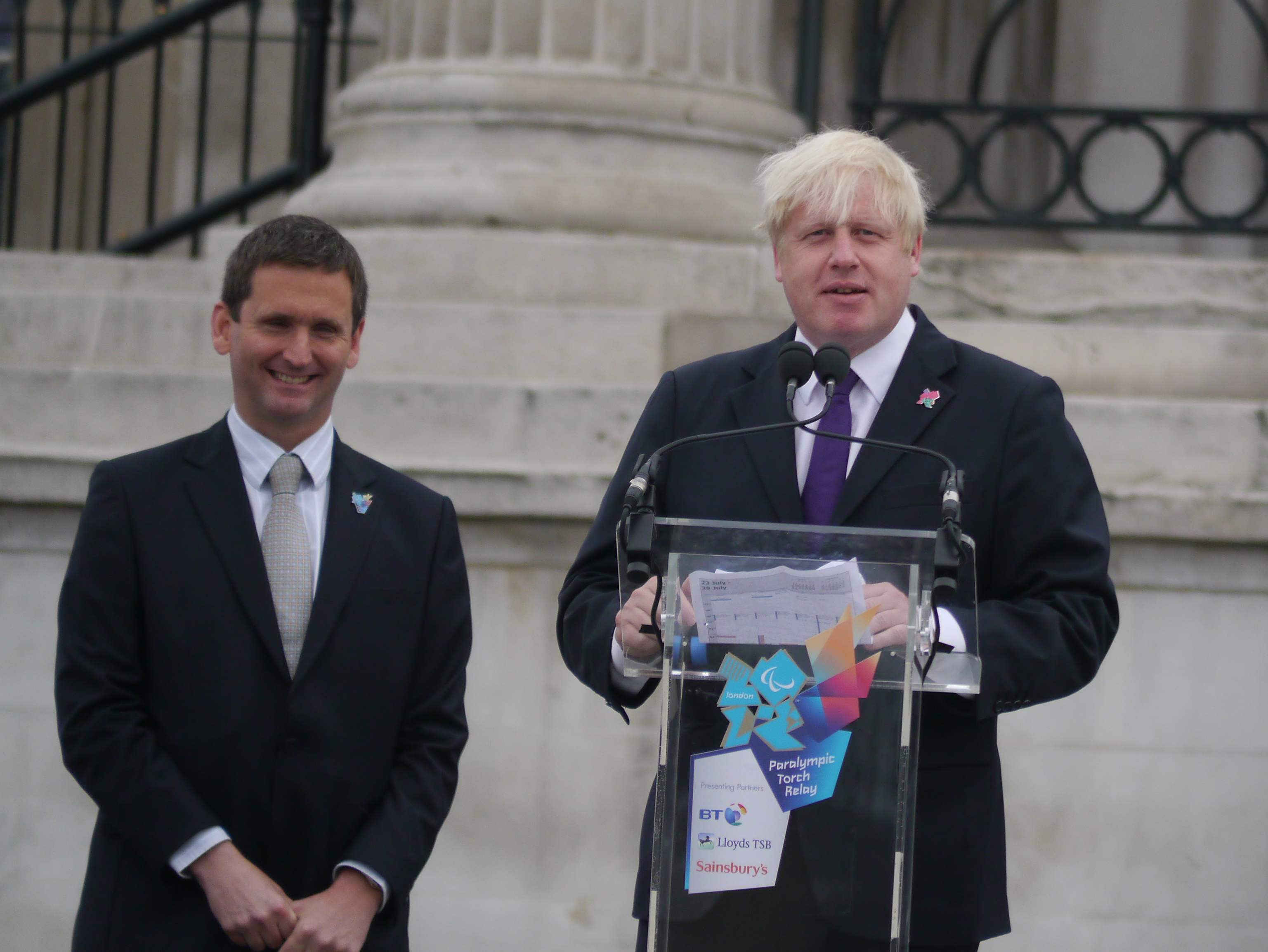 This morning I went to see the ceremonial cauldron being lit in Trafalgar Square to launch the Paralympic torch relay. Chris Holmes is Director of Paralympic Integration for the 2012 Olympics and Paralympics and won a total of nine golds, five silvers, and one bronze medal at the Paralympic Games between 1988 and 2000. Boris Johnson is, er, Boris.